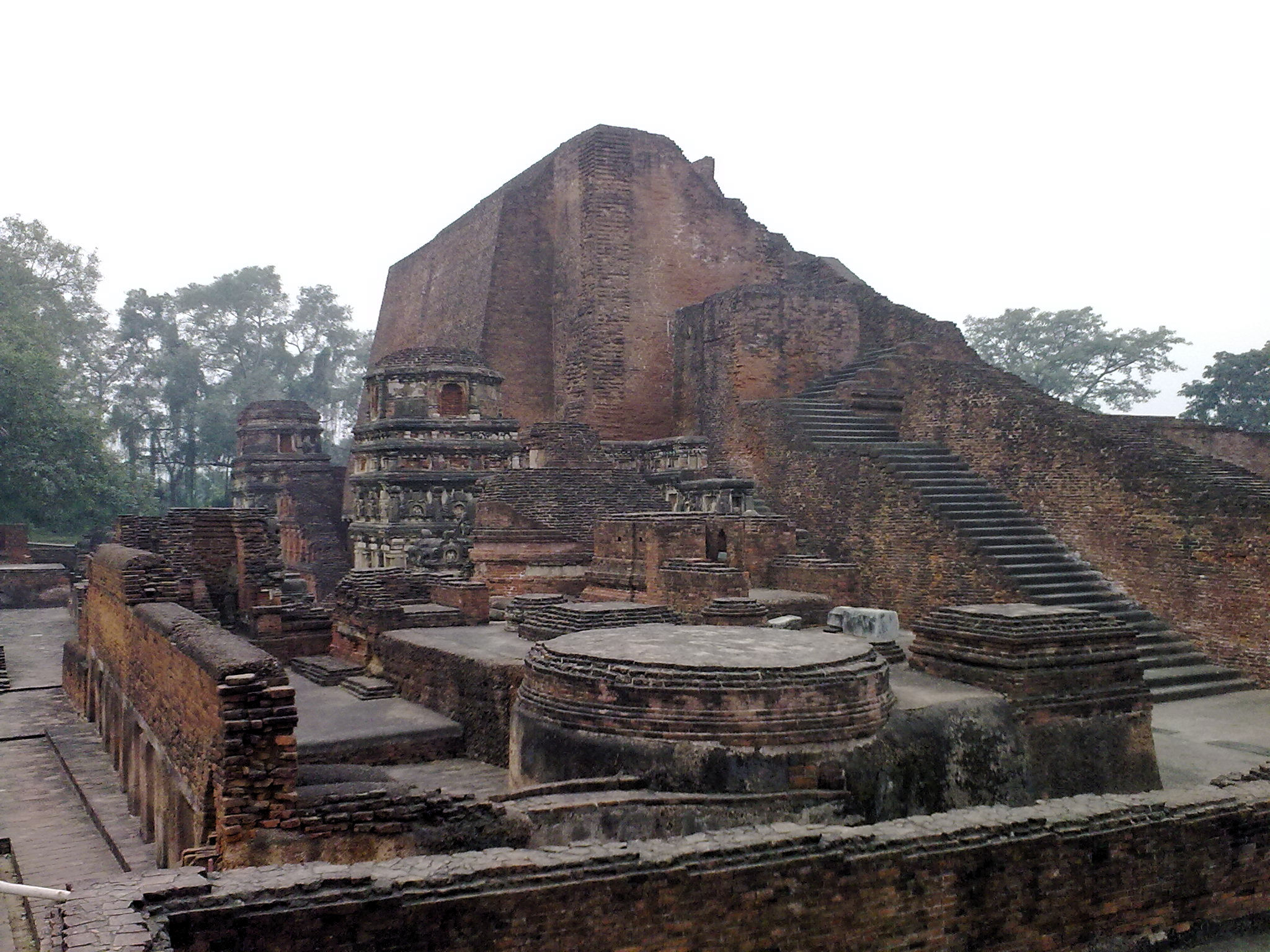 Nalanda The ruins of ancient Nalanda in Bihar, India.